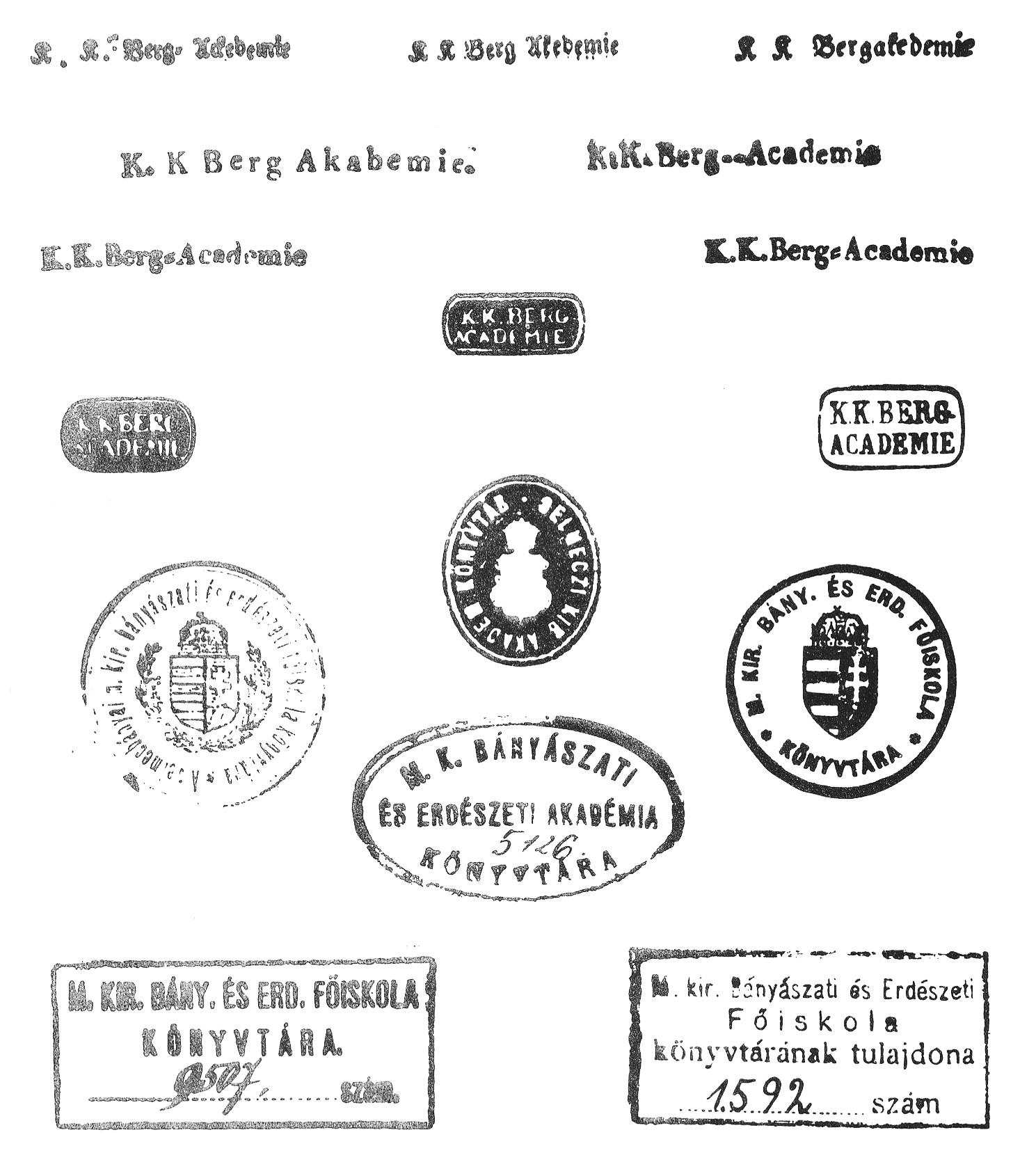 Selmec Mining Academy Library Stamps, 1735–1918